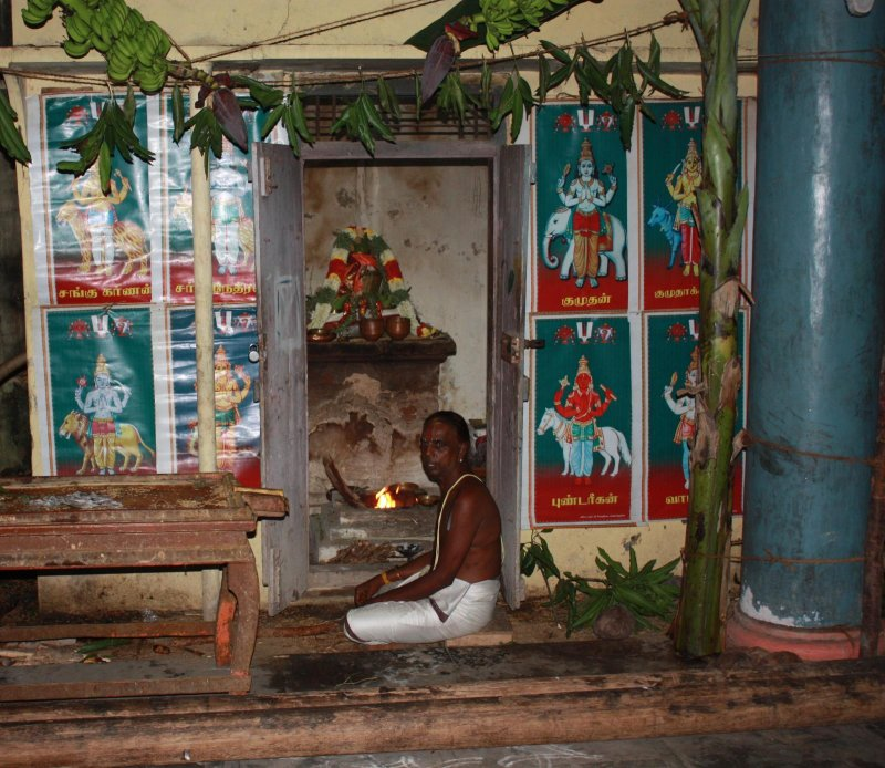 This photo took in Annan Koil in Bhramotsavam